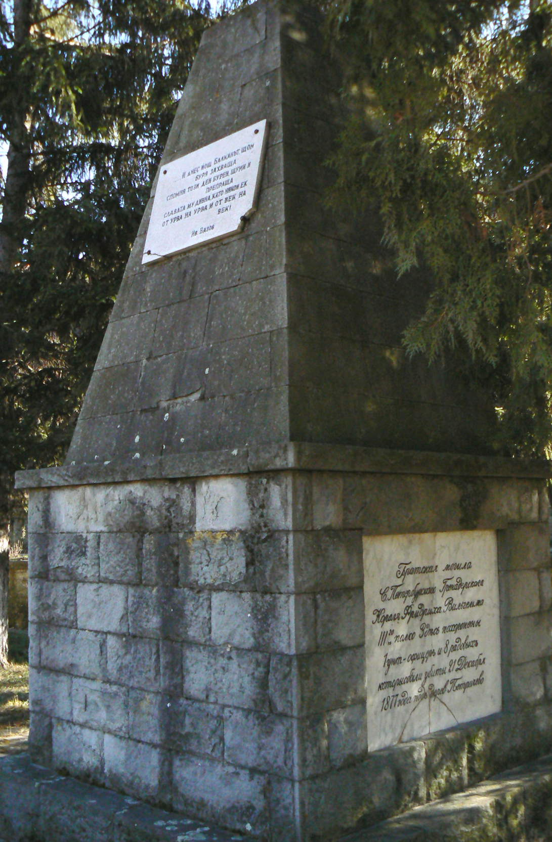 The Brothers' mound monument in village Petrich, Bulgaria